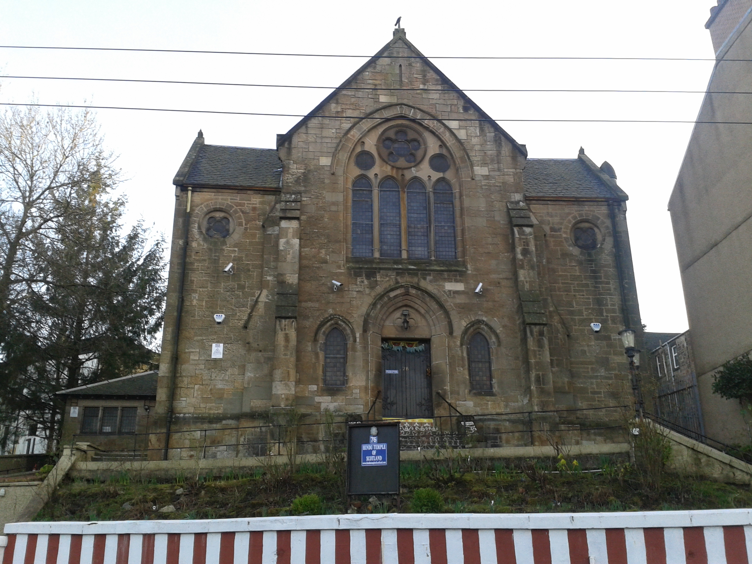 Hindu Temple of Scotland, 76 Hamilton Road, Rutherglen; former church.